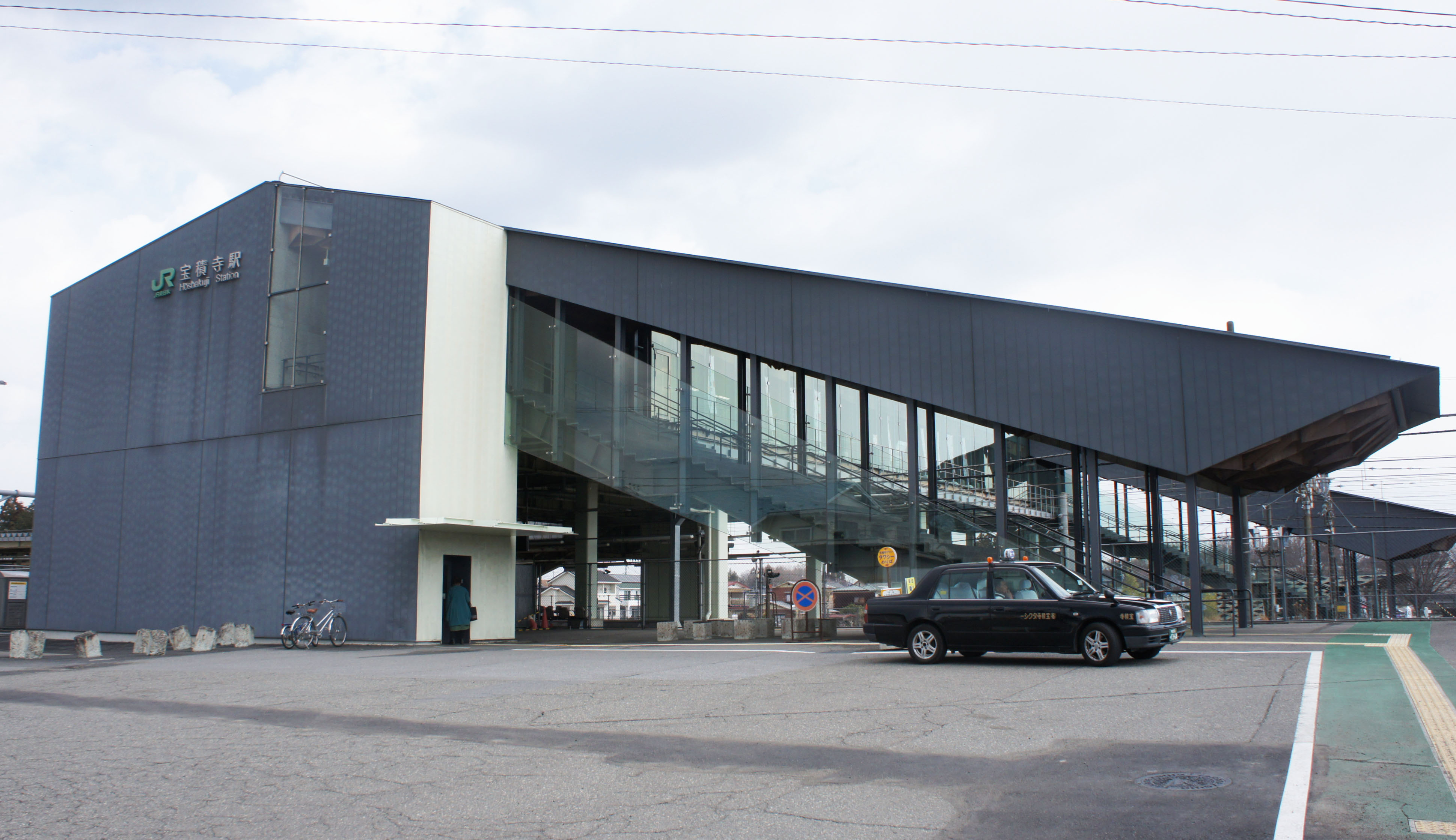 West Exit of JR Tohoku-Main-Line/Karasuyama-Line Hōshakuji Station Sony NEX-3